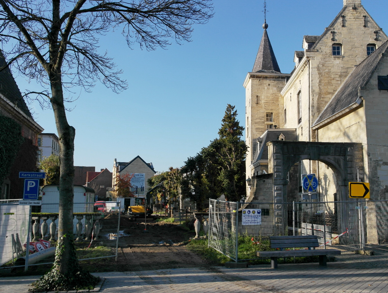 Valkenburg, Limburg, the Netherlands. Reconstruction of Halderpark near the strongkeep Den Halder, a remnant of.the former city walls.